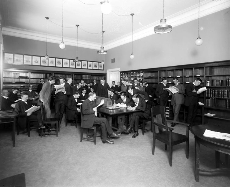 Lecture hall of the Stockholm School of Economics at Brukebergstorg 2, Stockholm.